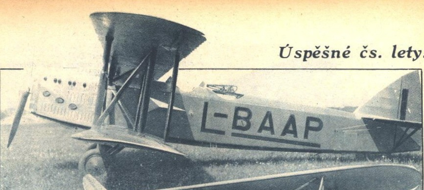 Aircraft Letov Š-116 with Hispano Suizza 500 HP engine. Civil aircraft registration L-BAAP.